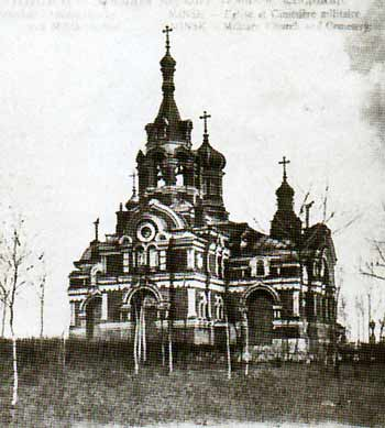 Church of St. Alexander Nevsky in Minsk